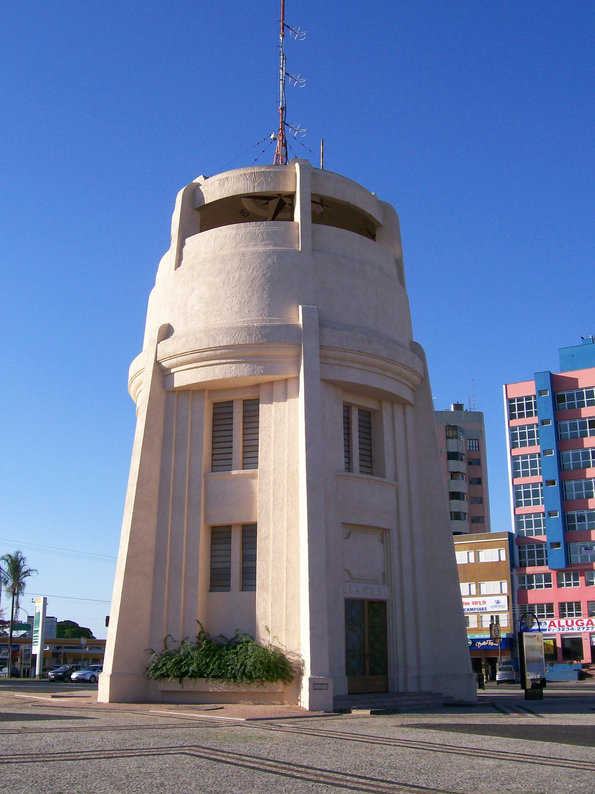 Torre do Castelo (Castle Tower) as seen from street level, in Campinas, Brazil